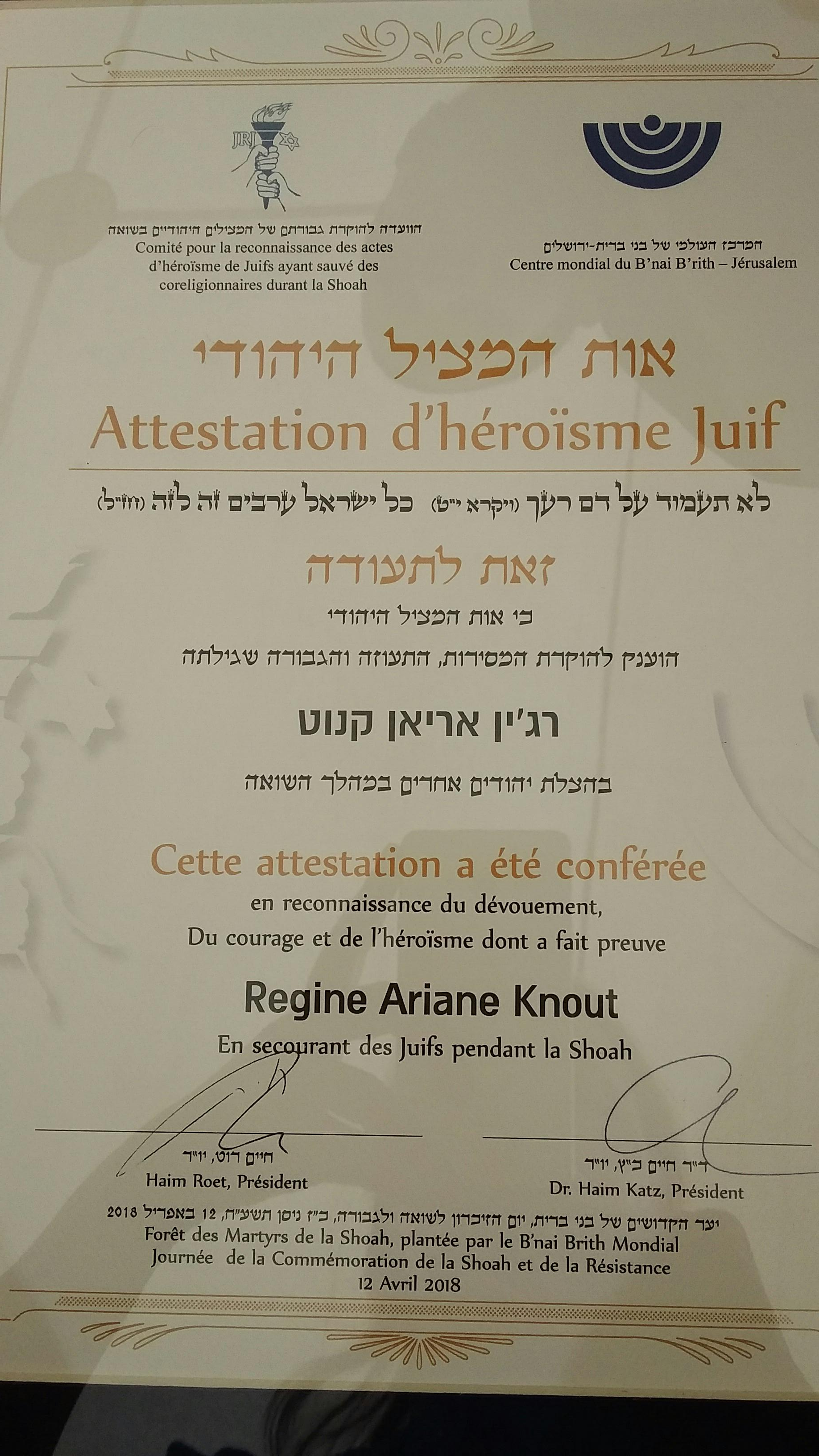 Ariadna Skriabina B'nai B'rith posthumous attestation